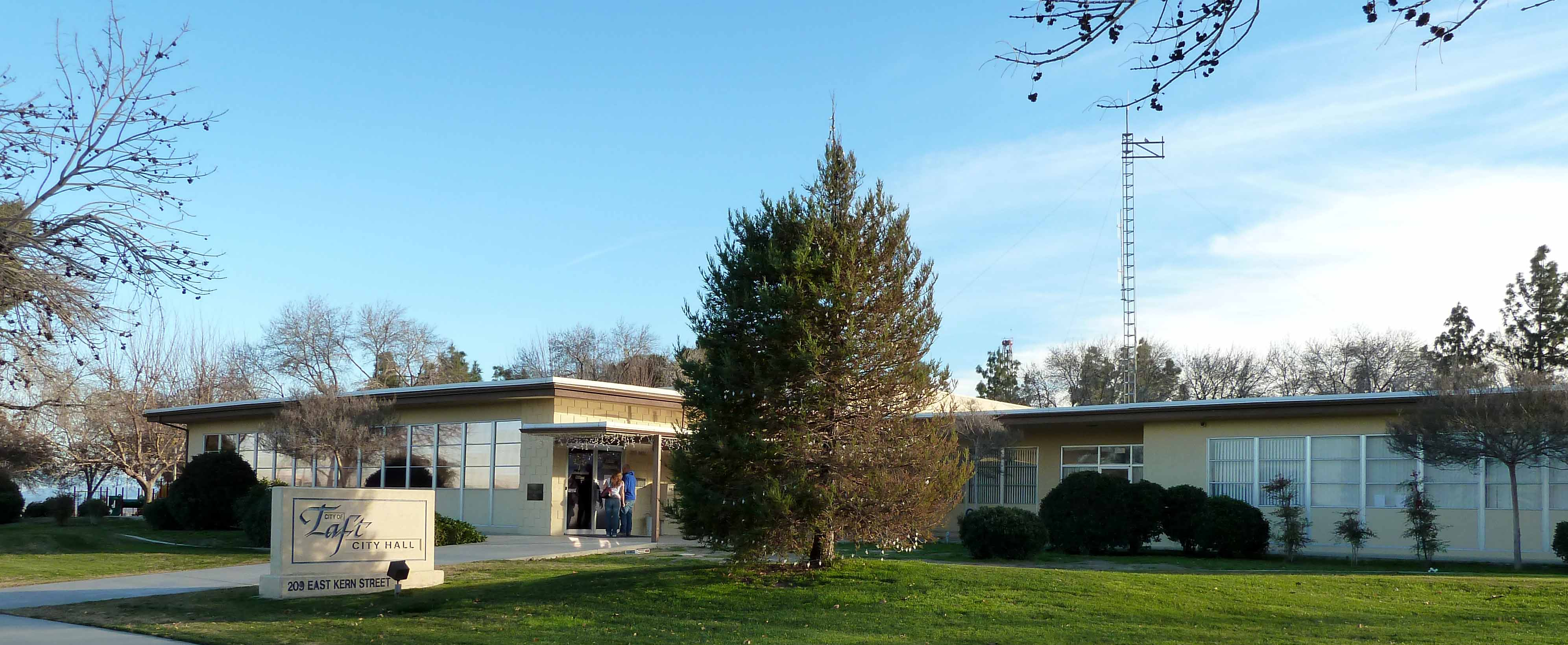 City Hall, Taft, California, USA.